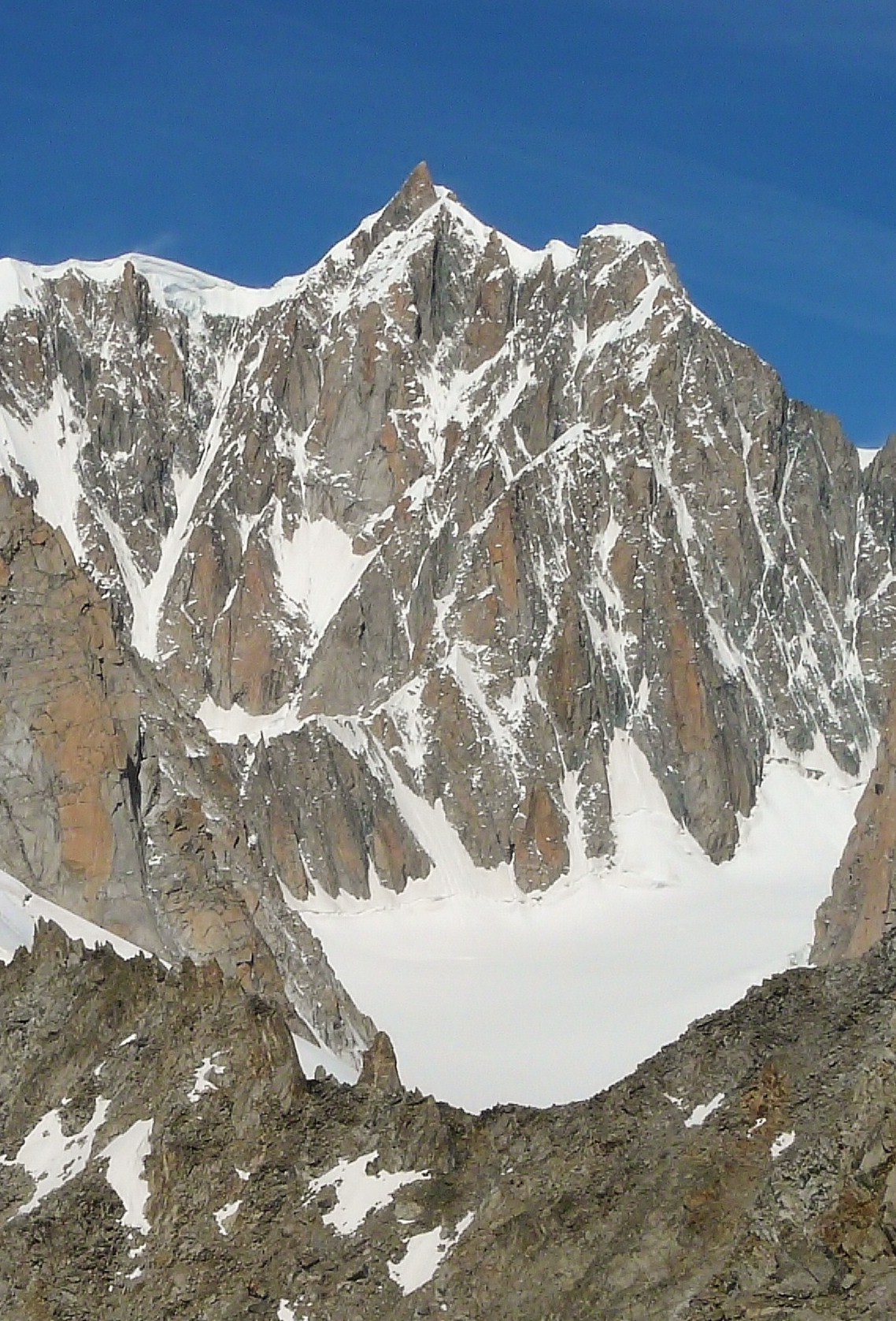 Mont Maudit (4,465 m) as seen from Punta Helbronner (3,462 m) in 2009 July.